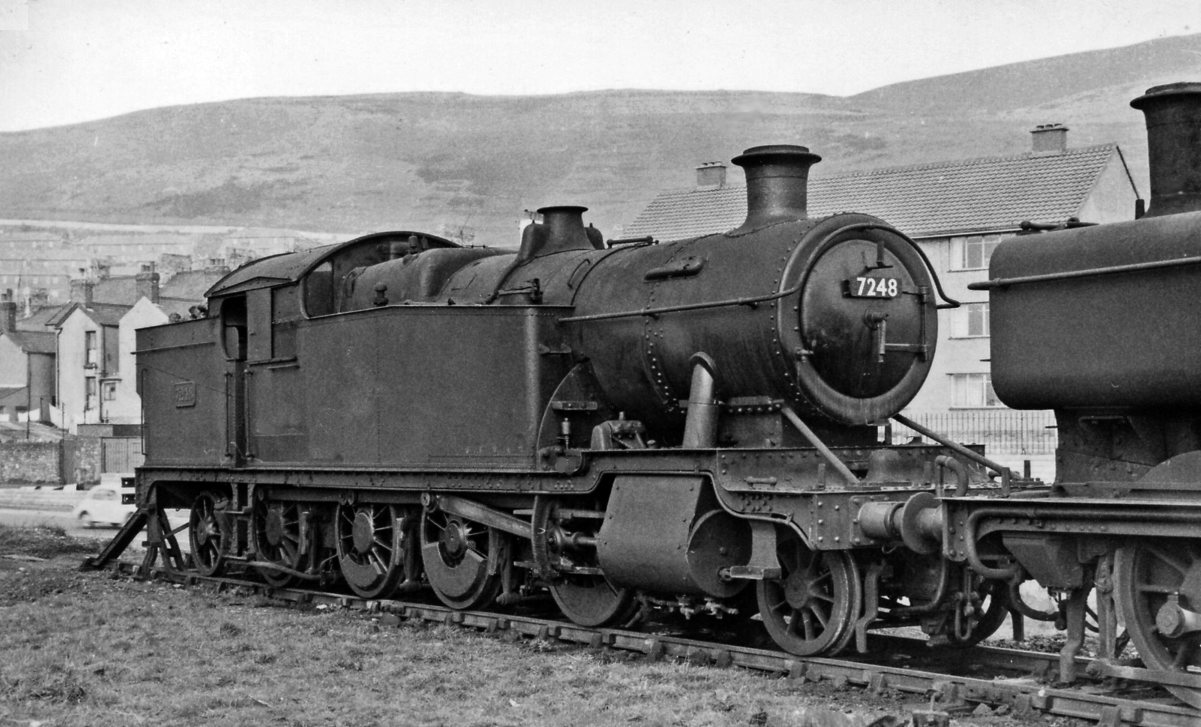 GW 2-8-2T at Swansea East Dock Locomotive Depot. View northward, in the sidings on the north side of East Dock. One of several Locomotive Depots in the Swansea area, this Depot was the ex-GWR one serving the Docks traffic. Coded 87D under BR in the Neath Division, in 1954 it had an allocation of 35:- 3 2-8-2T, 7 2-8-0T, 6 0-6-2T, 16 0-6-0T and 3 0-4-0T: it was closed in 6/64. Collett 2-8-2T No. 7248 was a 10/38 rebuild of Churchward 2-8-0T No. 4249 built 4/16. The 2-8-2Ts and 2-8-0Ts were employed on the heaviest coal trains, mainly on relatively short journeys in South Wales but often they went much further afield into England. In the background is Kilvey Hill (632 ft.).